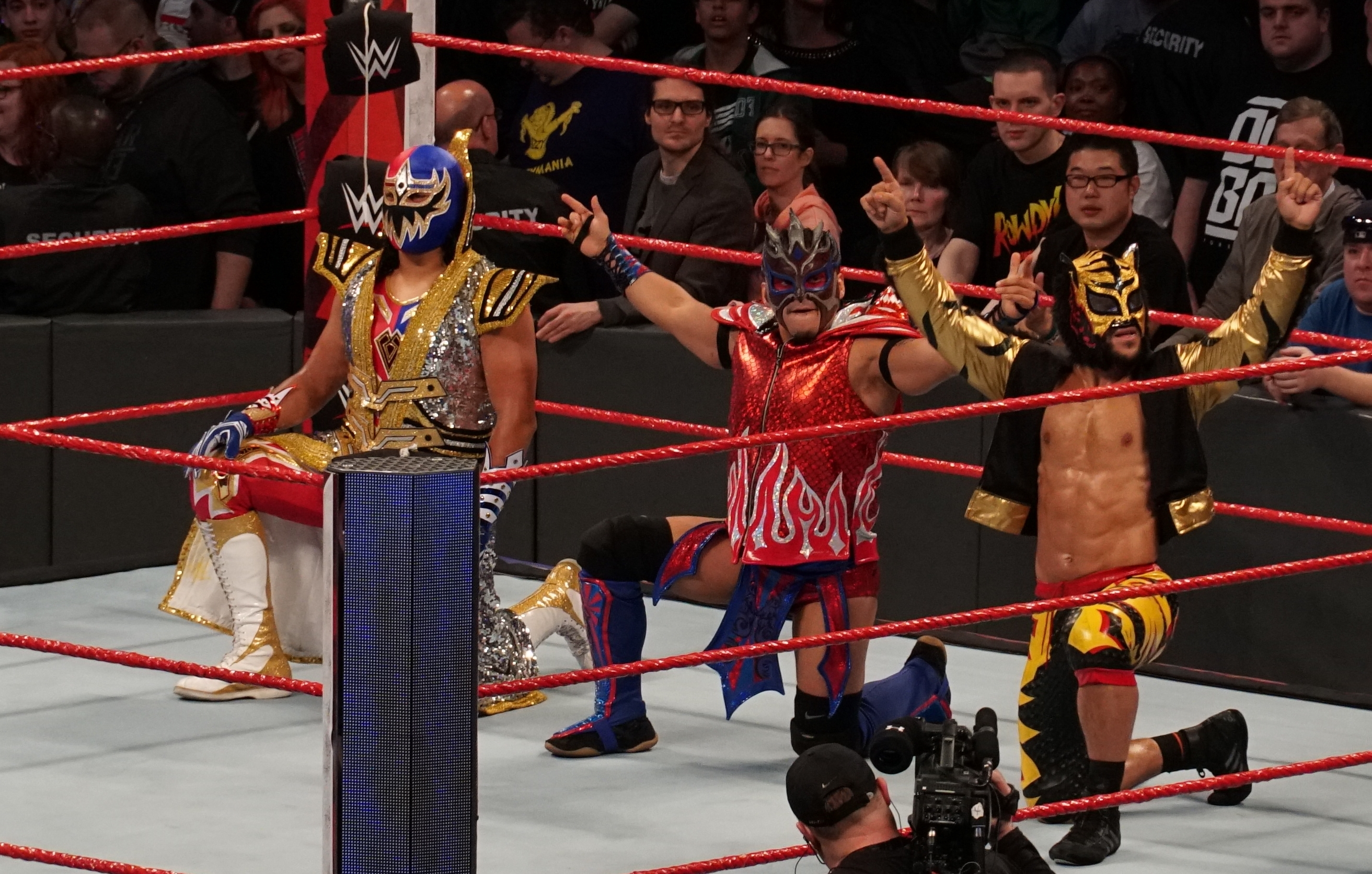 Professional wrestling promotion WWE's stable, Lucha House Party (Gran Metalik, Kalisto, and Lince Dorado) in the ring on April 9, 2018.